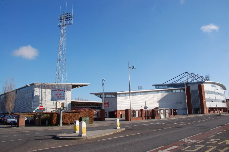 Author: Spicke01.